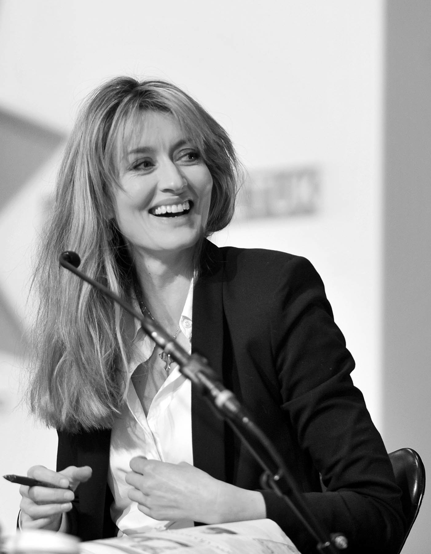 Jude Kelly, Shami Chakrabarti, Baroness Doreen Lawrence, Natascha McElhone and Mulberry School for Girls student Sujina Khatun, give us a snapshot of the biggest headlines across the globe, and best comment and reflect on their own experiences of dealing with the press. More info about this event